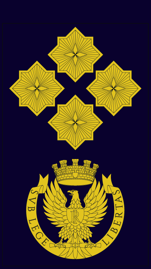 Rank insigna of "Primo dirigente" of the Italian Police.